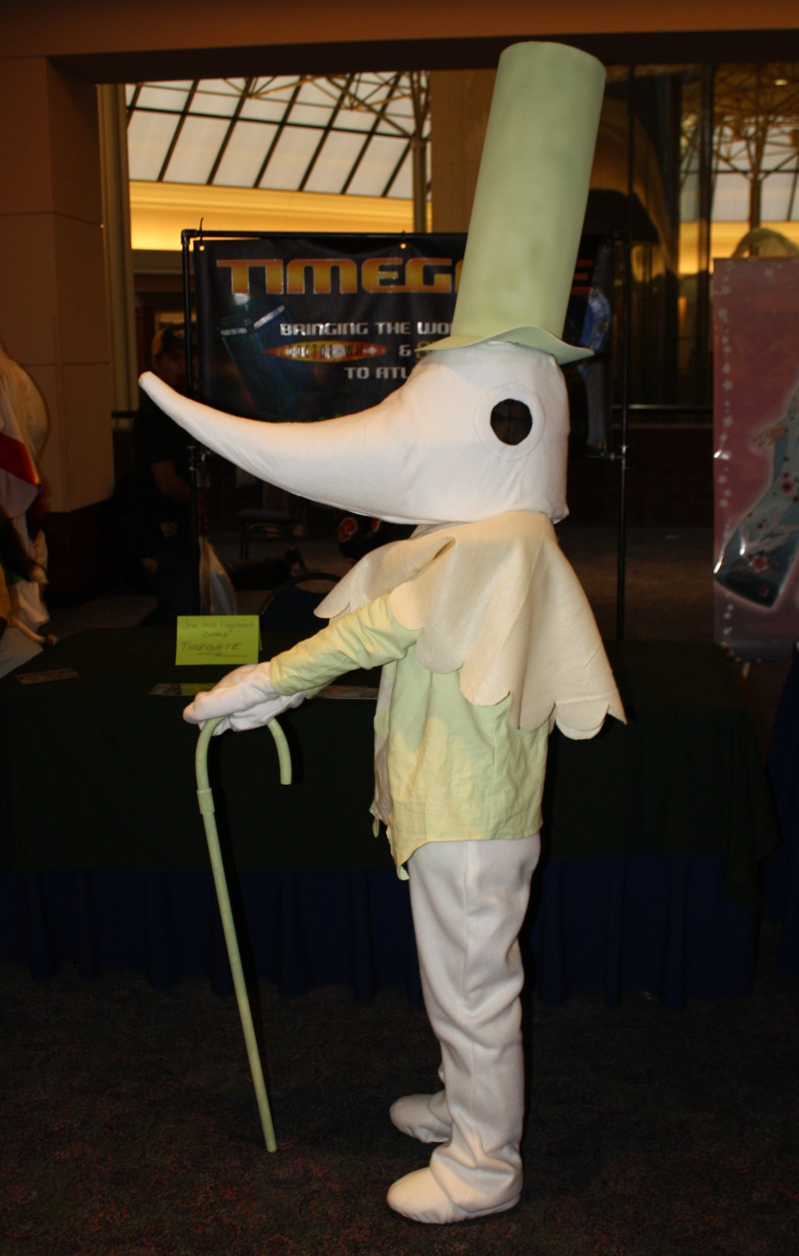 Soul Eater cosplay Excalibur